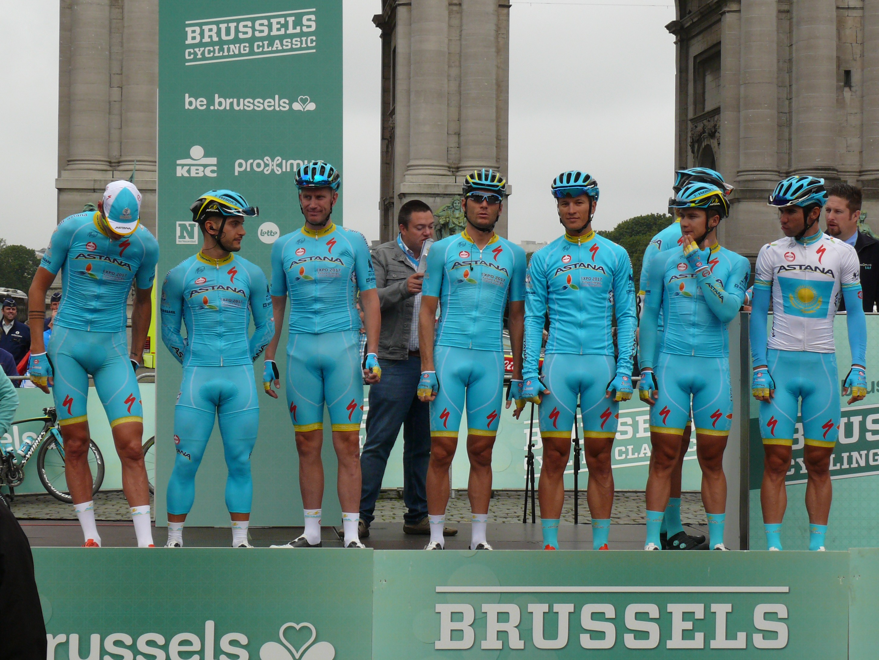 Brussels Cycling Classic 2016, 3.9.2016, Brussels, Parc du Cinquantenaire, presentation of the teams before the start, Astana Pro Team, from the left side stand Lars Boom, Andrea Guardini, Lieuwe Westra, Andriy Hrivko, Ruslan Tleubayev, Alexey Lutsenko and Arman Kamyshev